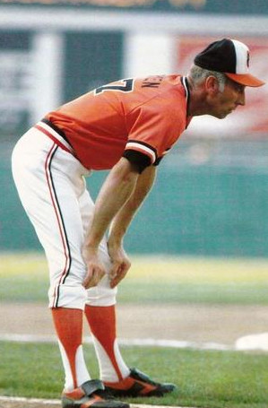 Professional baseball coach Cal Ripken Sr.